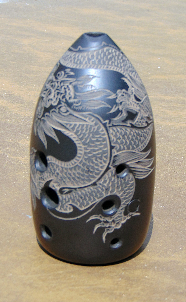 This ceramic xun flute was made in China and purchased there in 2015.